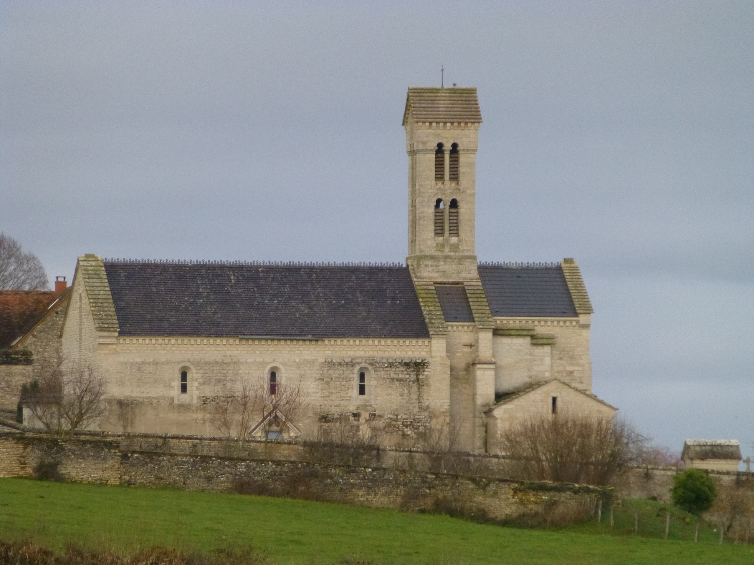 Savianges church (south view)